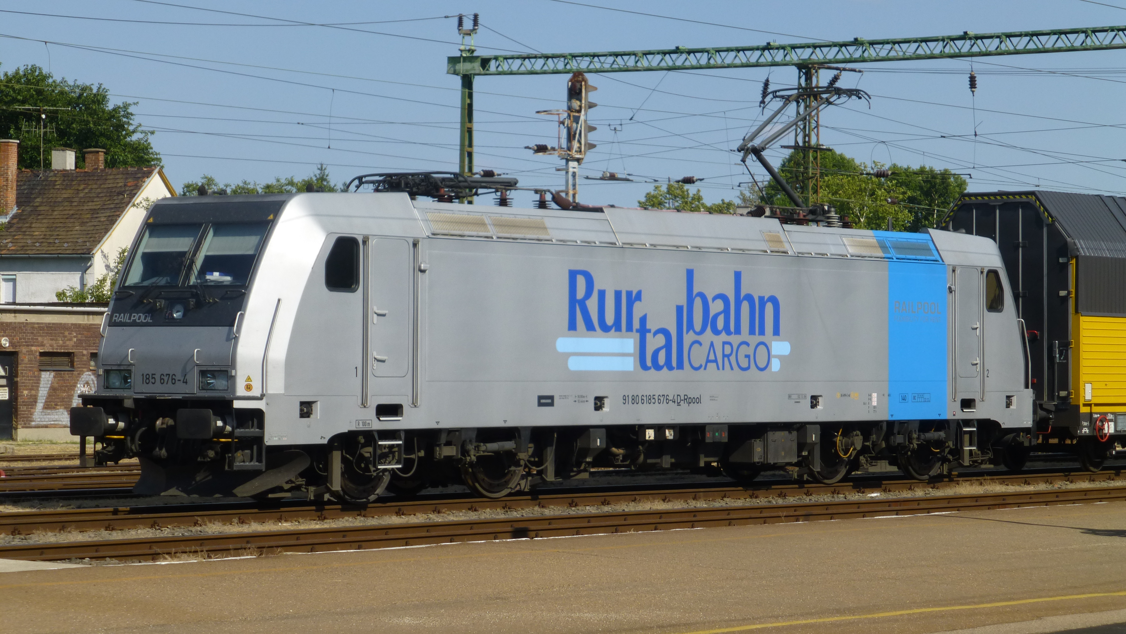 Locomoitve of the Railpool (hired to Rurtalbahn) in Kecskemét, Hungary.